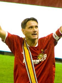 Dmitri Alenichev, Russian footballer.